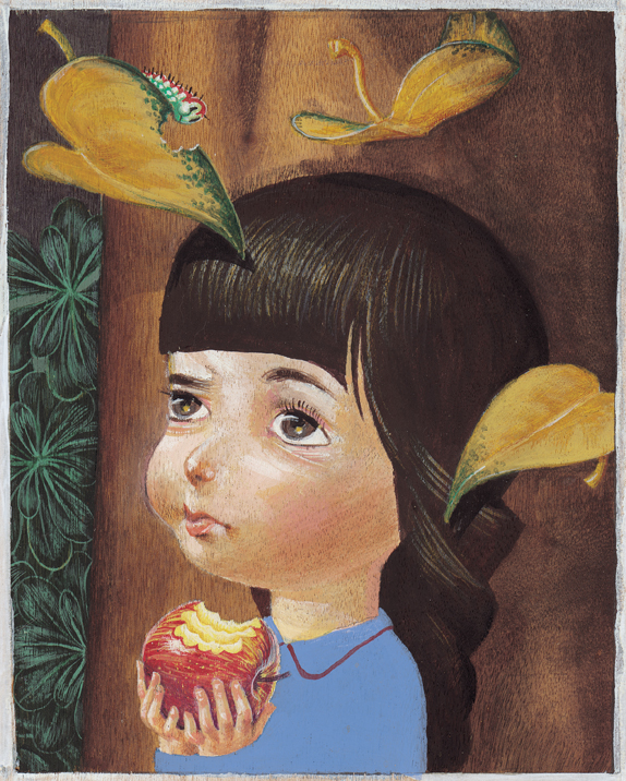 Illustration by David Polonsky